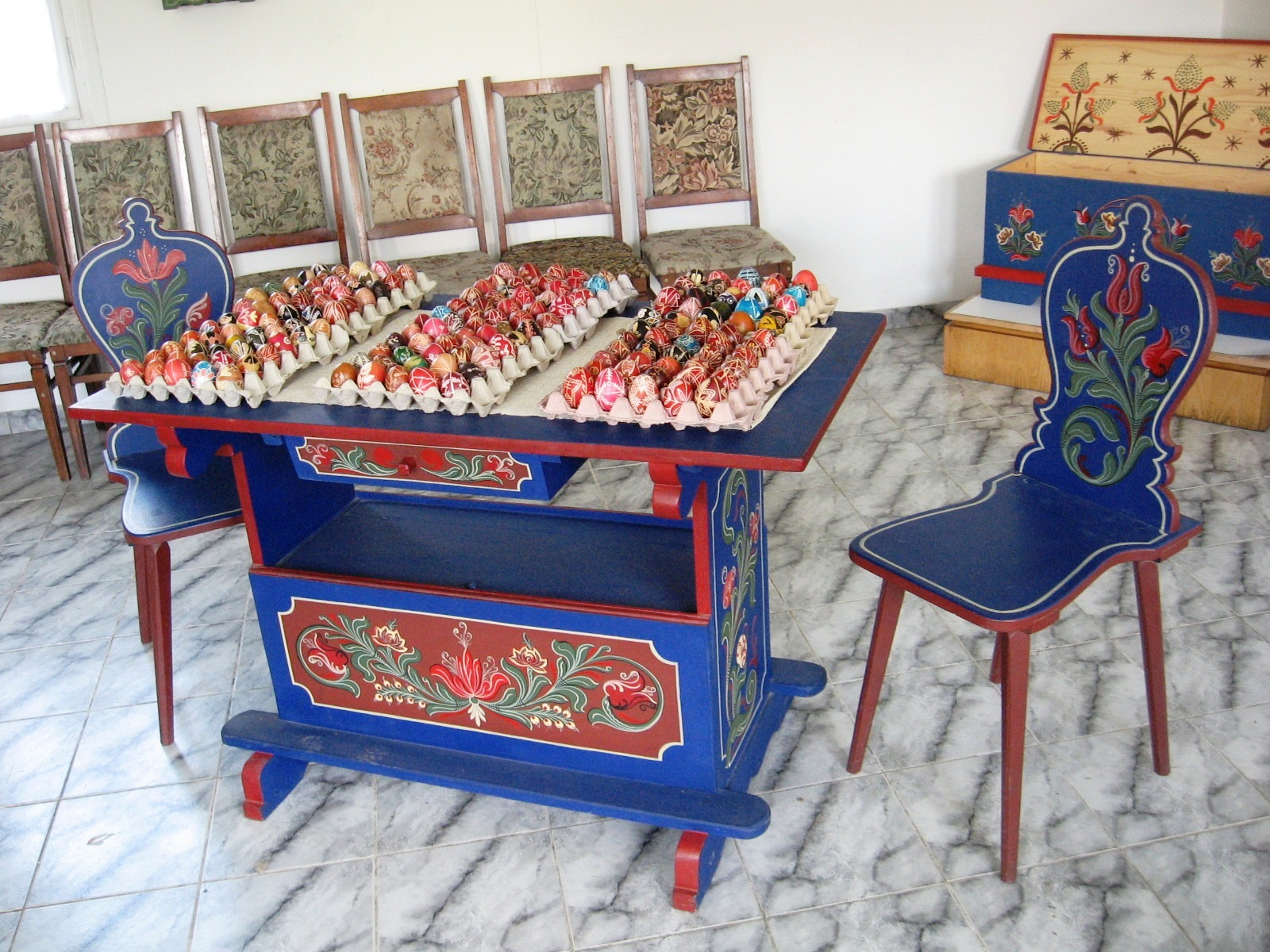 Covasna County ,Cernat, museum